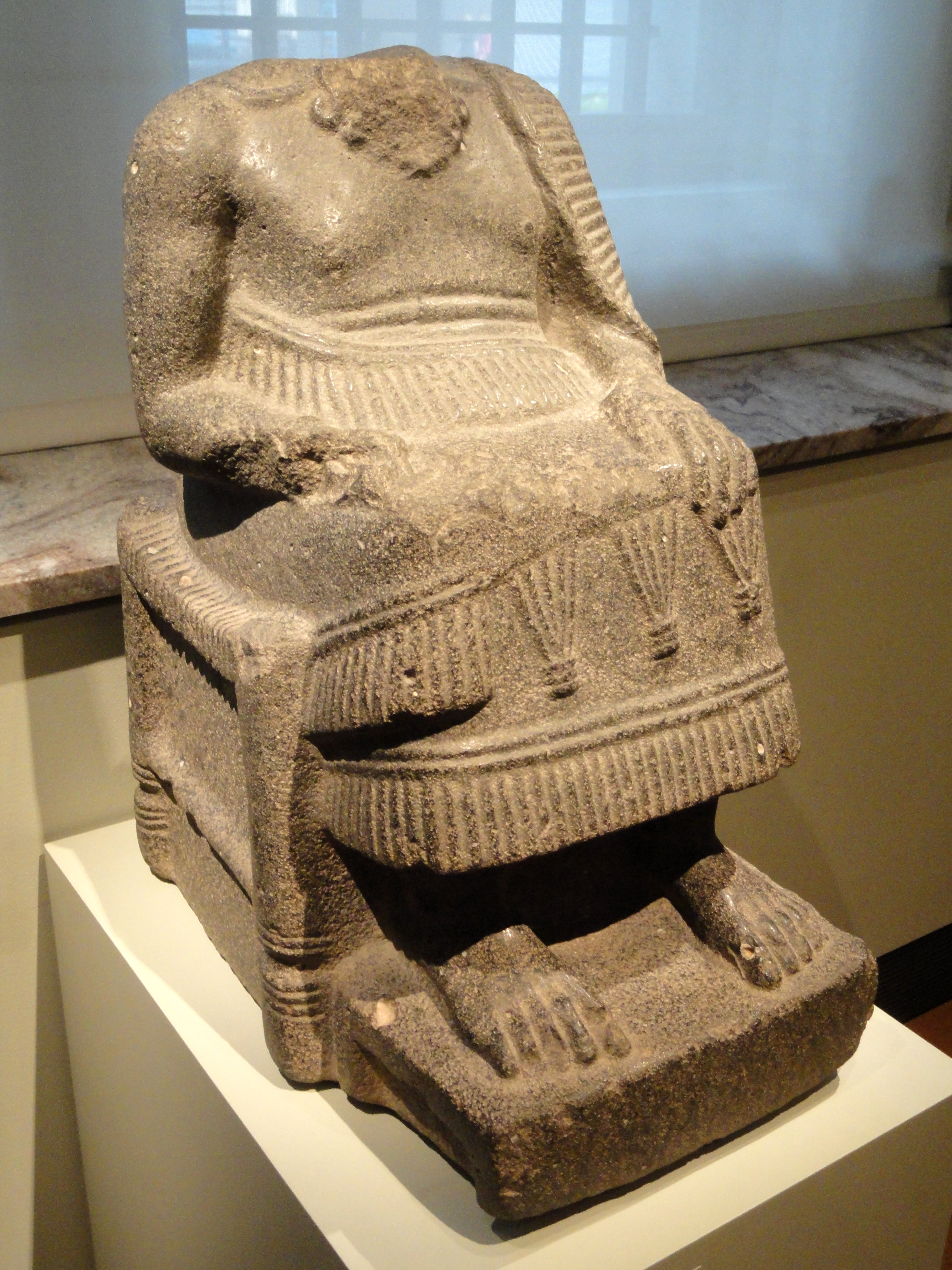 Exhibit in the Cleveland Museum of Art, Cleveland, Ohio, USA. This artwork is old enough so that it is in the public domain.